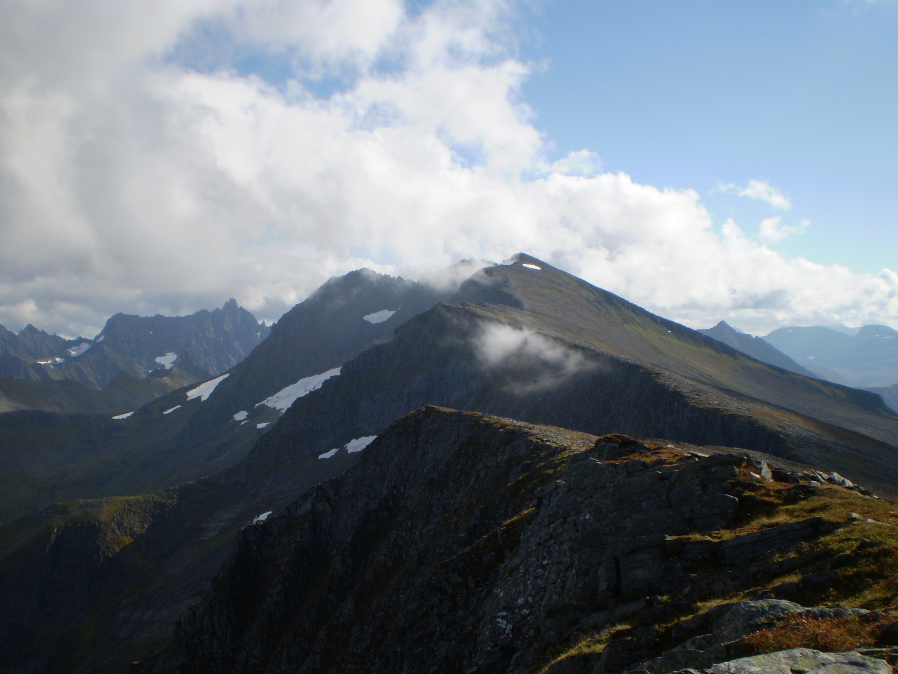 The mountain Fossholtinden in Ørsta, Norway.